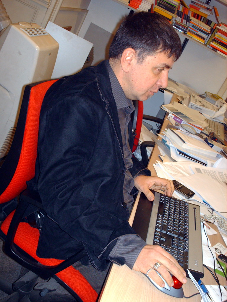 Ermanno Gomma Guarneri in his office.